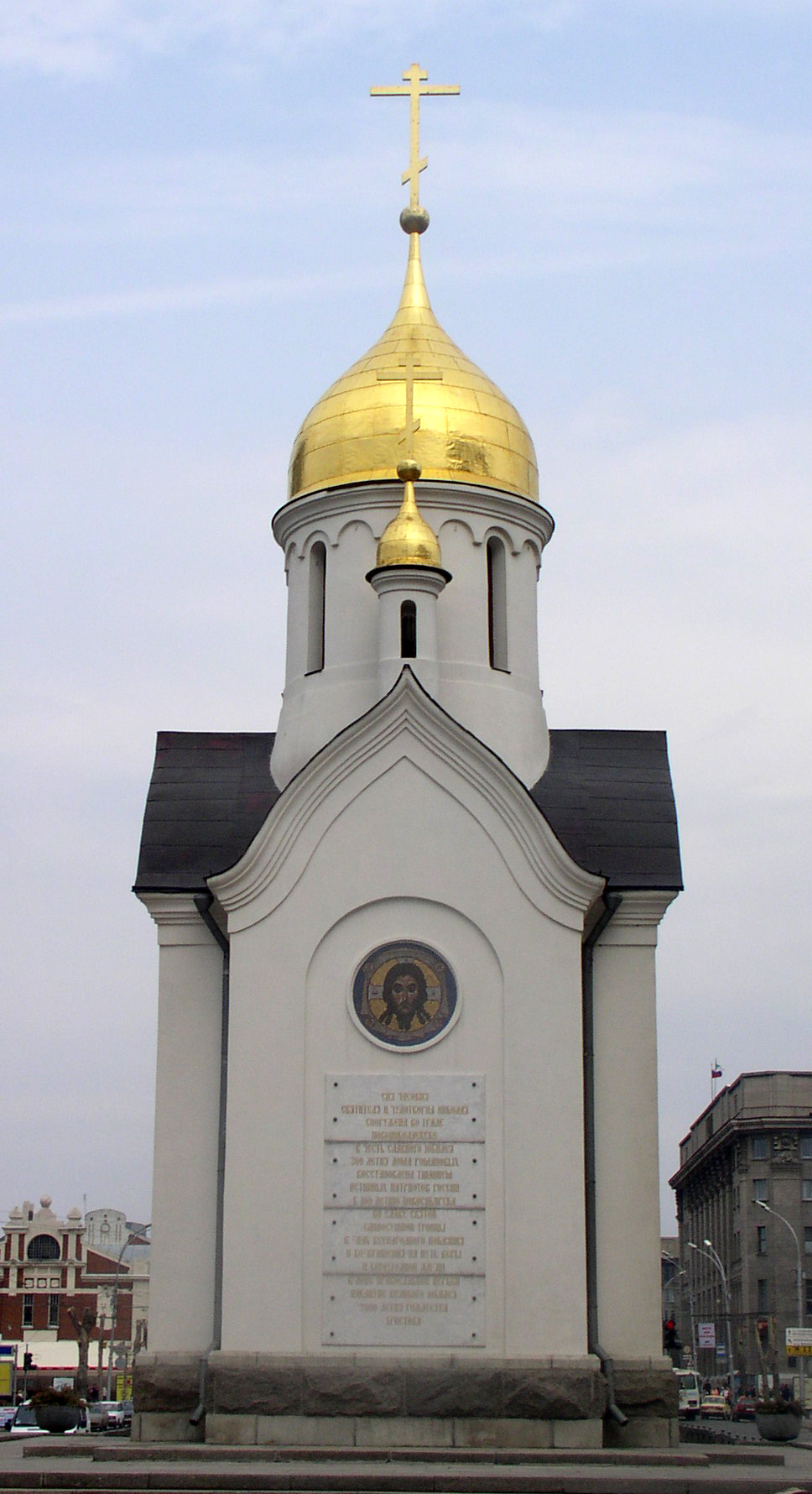 Chapel of St. Nicholas in Novisibirsk, built in 1915 as the geographic centre of the Russian Empire